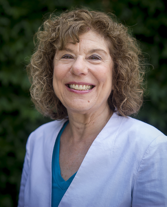 Francine Balu, ILR School Cornell University